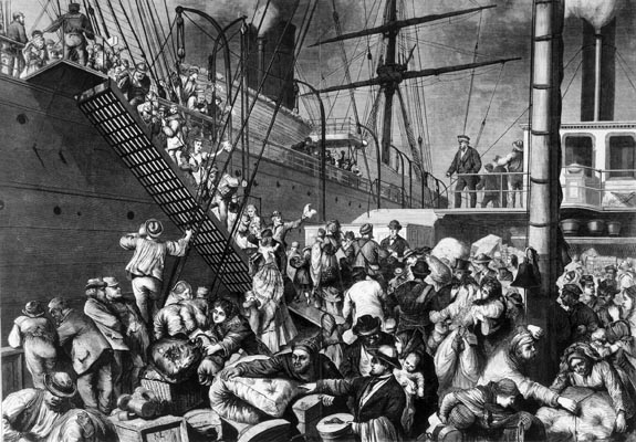 German emigrants headed for New York board a steamer in Hamburg, Germany. (Collection of the Lower East Side Tenement Museum)